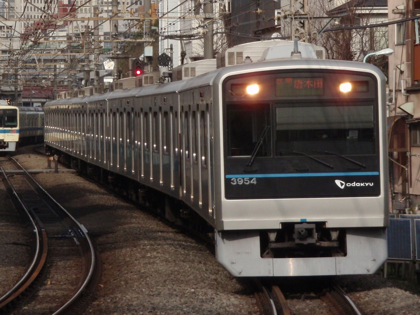 Odakyu Electric Railway Company, EMU Type 3000 No.3954 at Yoyogihachiman Sta.